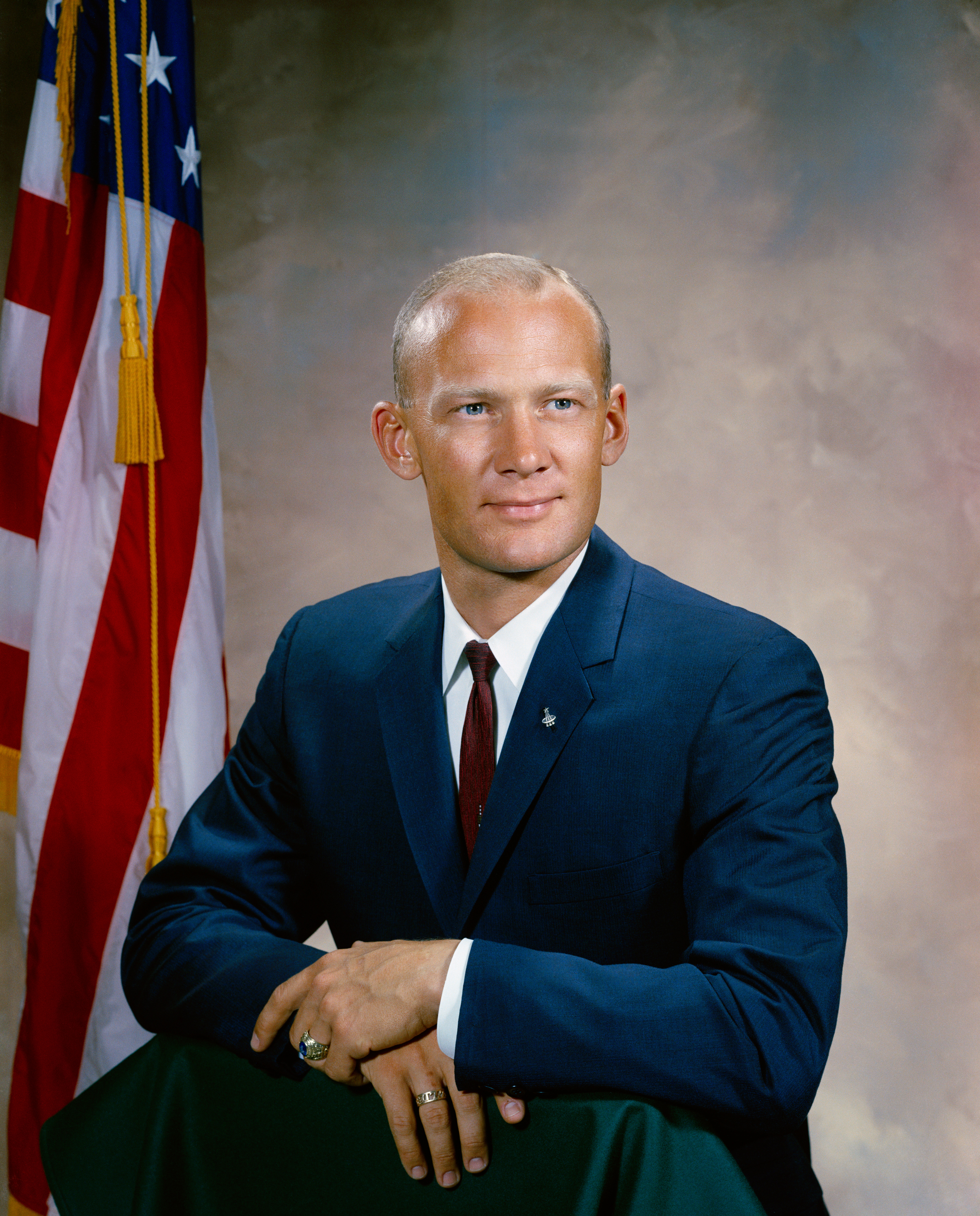 Astronaut Edwin E. "Buzz" Aldrin Jr.